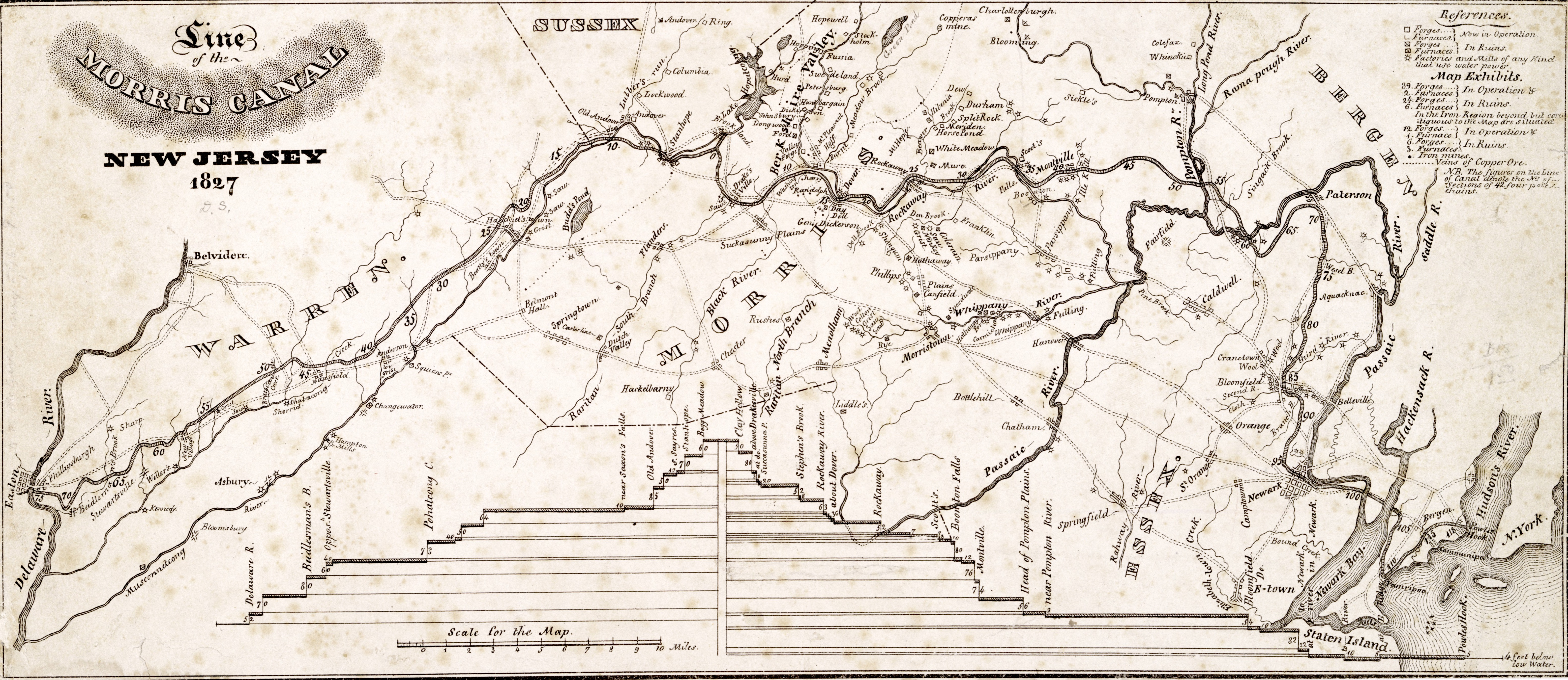 Map of the Morris Canal, New Jersey, from 1827. "Lithogr[aphed] by Imbert."--NYPL Dictionary Catalog of the Map Division. Described in the New York Public Library's Dictionary catalog of the Map Division, VI, p. 640. Includes elevation profile of the canal. National Endowment for the Humanities Grant for Access to Early Maps of the Middle Atlantic Seaboard. NYPL copy trimmed close to neat line. Shows mines, forges, furnaces, factories, rivers, roads, and towns in the area of the Morris Canal, between the Delaware and Hudson rivers.